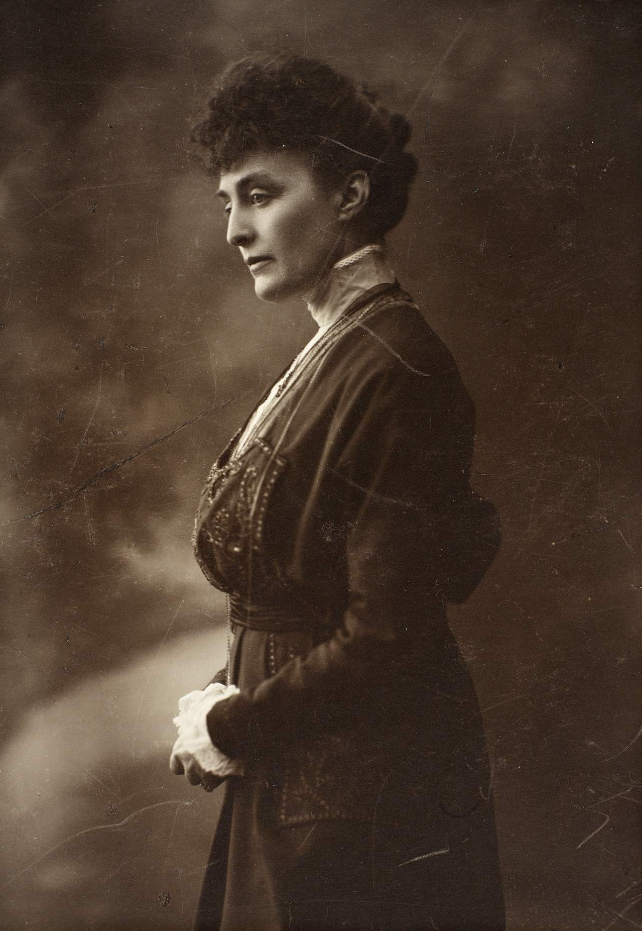 Tittel / Title: Portrett av Katti Anker Møller (1868-1945) Dato / Date: ca 1910 Fotograf / Photographer: ukjent / unknown Eier / Owner Institution: Nasjonalbiblioteket / National Library of Norway Lenke / Link: Bildesignatur / Image Number: blds_01109